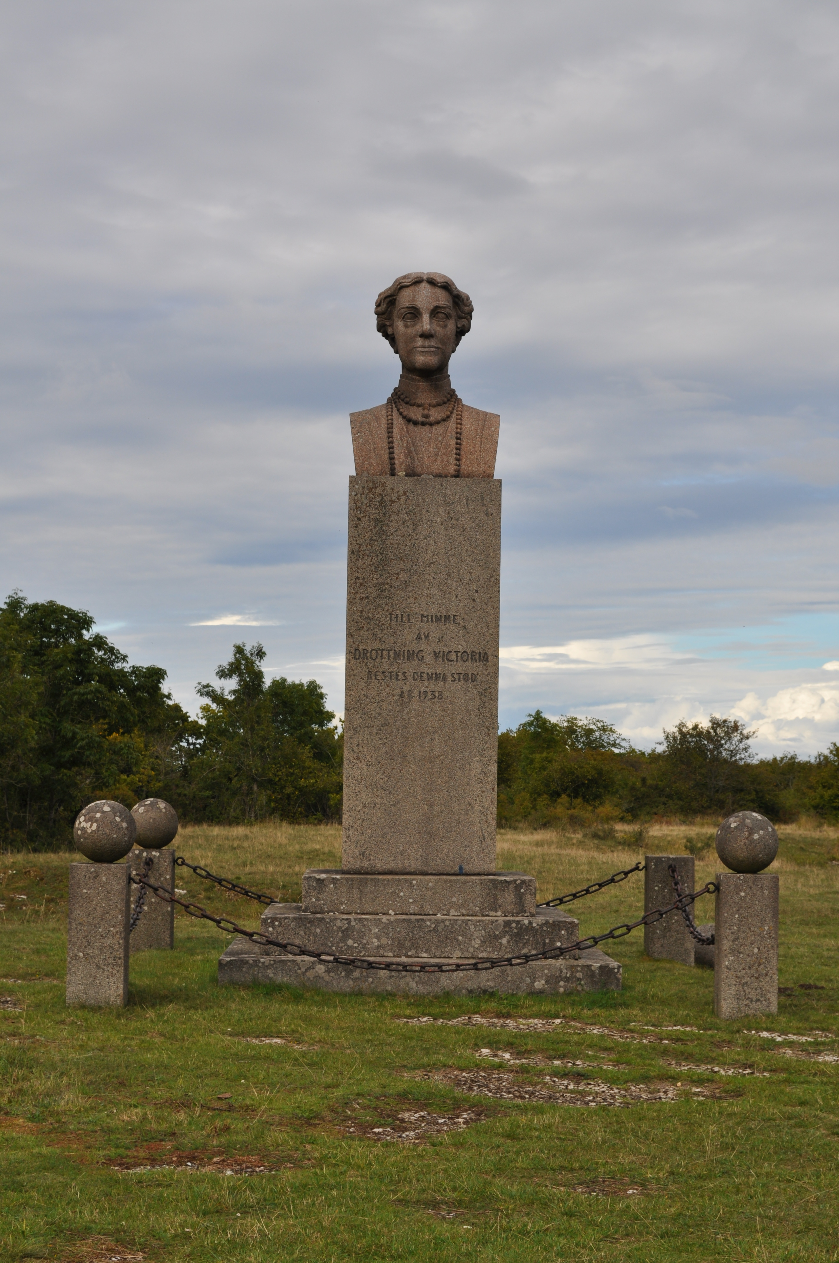 Statue- Victoria of Baden Solliden- Öland